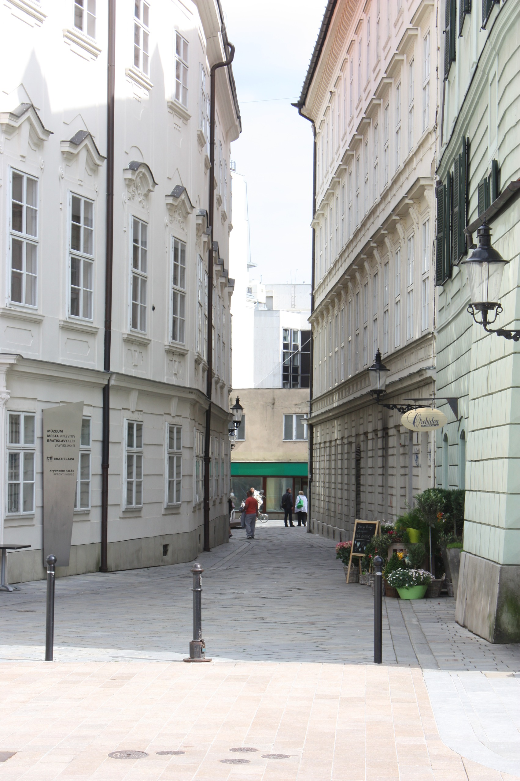 Bratislava, the street "Radničná"